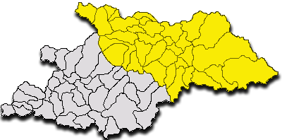 The southern part of the old Land of Maramureş is cloured with yellow